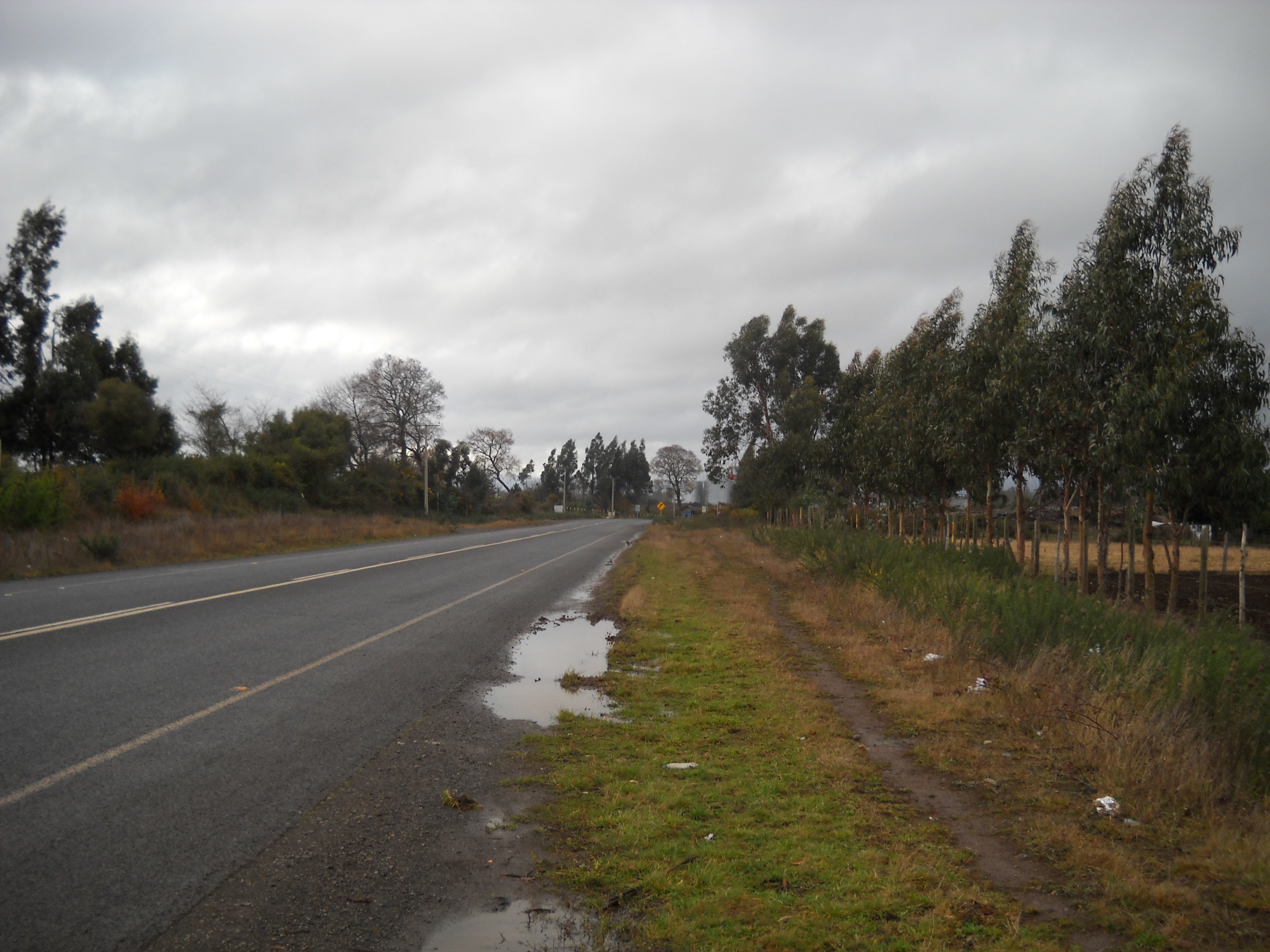 way of Cihueco.